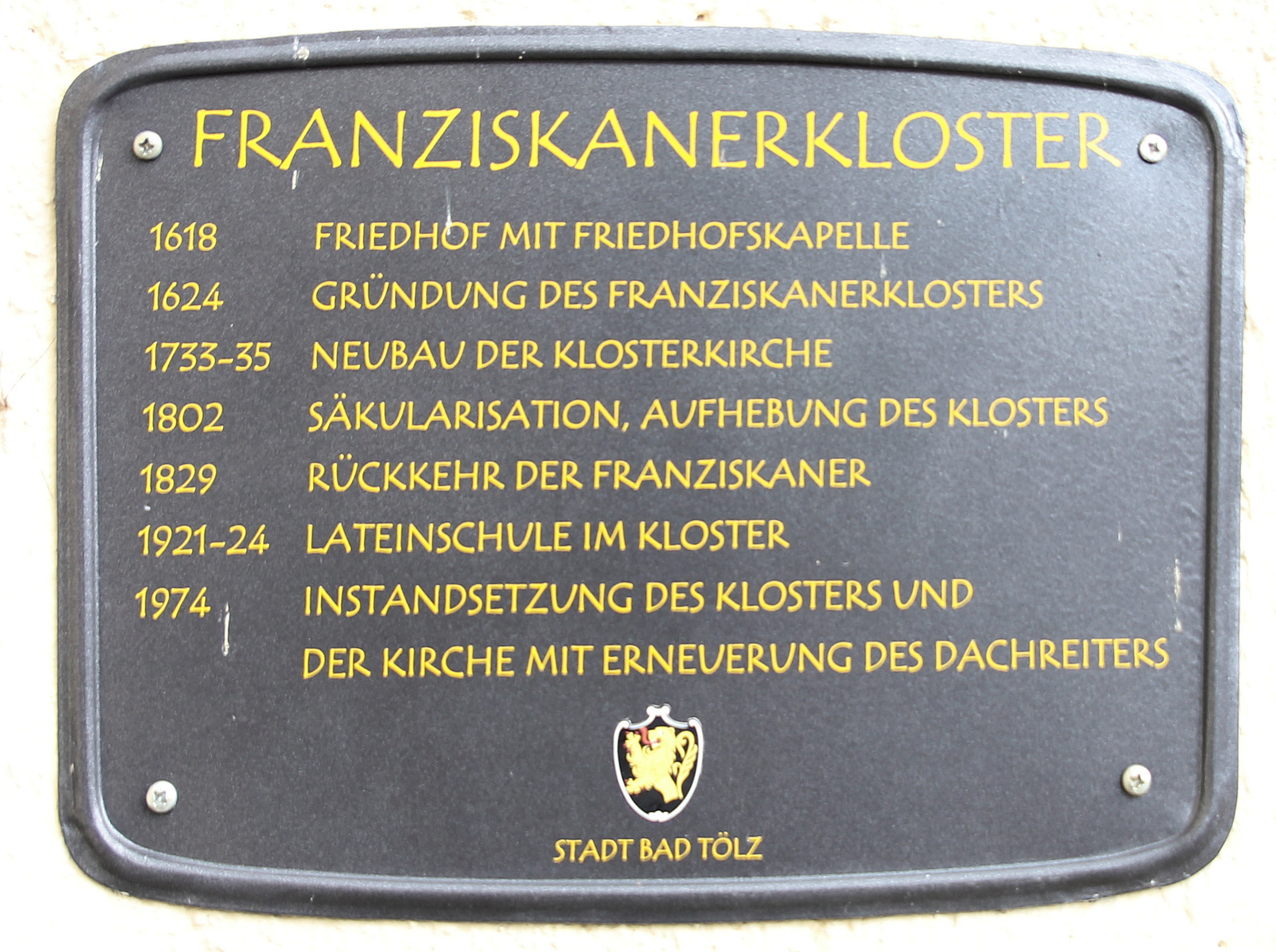 Memorial plaque, Kloster Tölz, Franziskanergasse 1, Bad Tölz, Germany Koordinate:47°45′35″N 11°33′16″E / 47.75972°N 11.55444°E